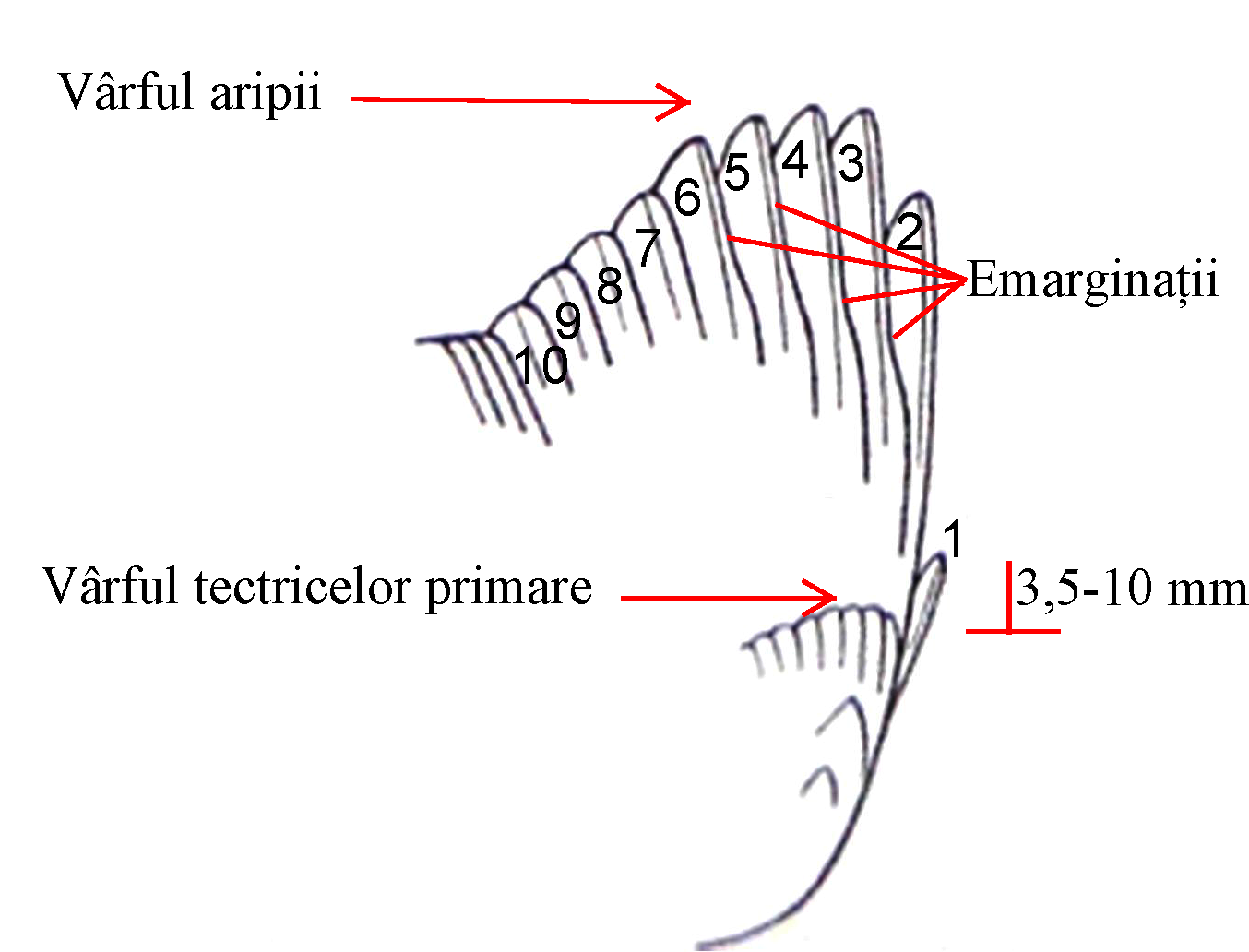 Phylloscopus collybita. Wing formula